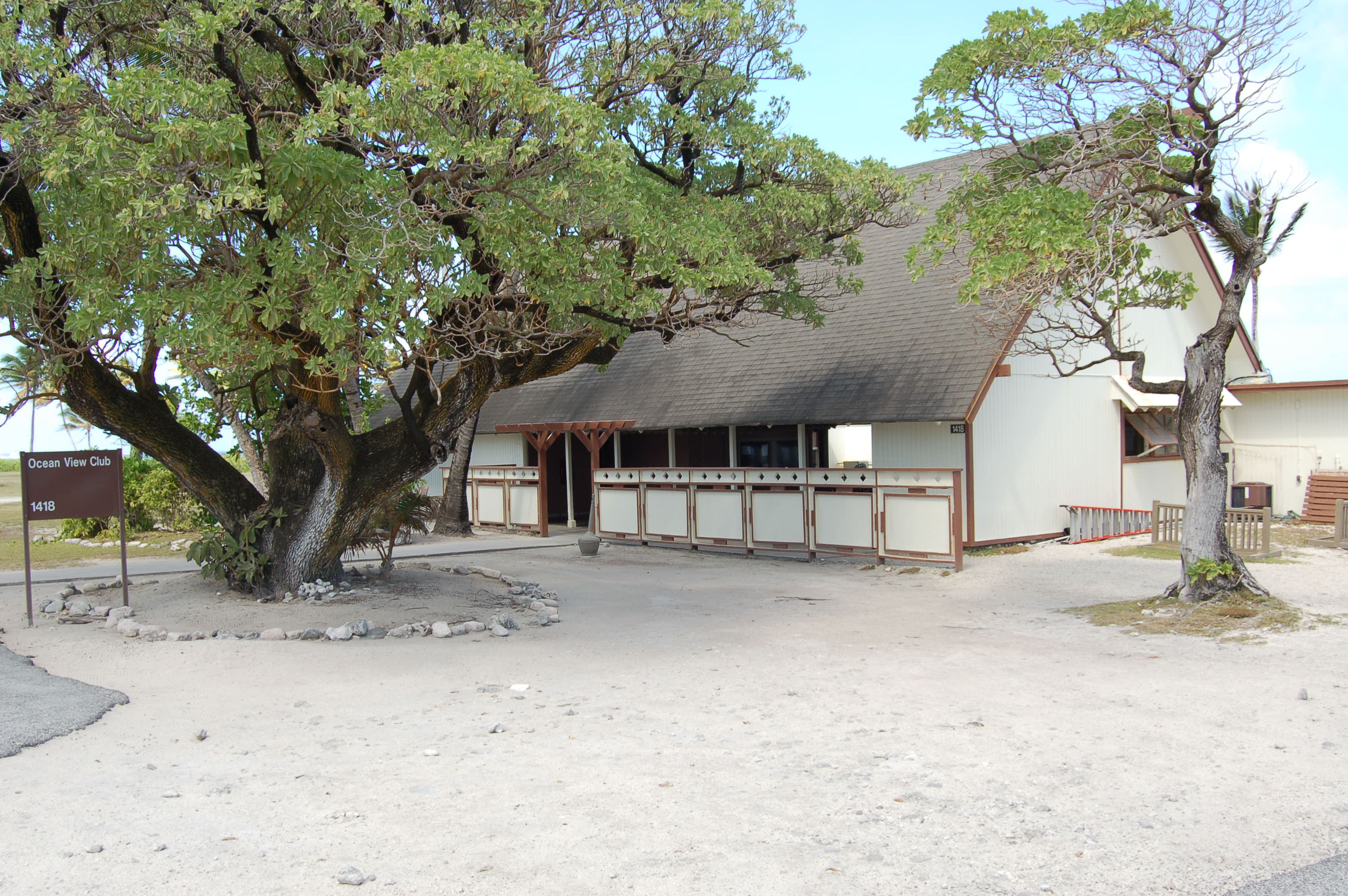 Picture of the Ocean View Club on the ocean side of Kwajalein island, taken February 2008. This is a popular "watering hole" for island residents.